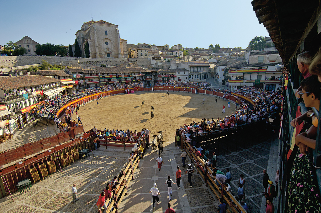 Chinchón Main Square This photograph can be used for publications, including this copyright statement: “©PromoMadrid, author Max Alexander”. Esta fotografía puede usarse en publicaciones, incluyendo la declaración “©PromoMadrid, autor Max Alexander”.